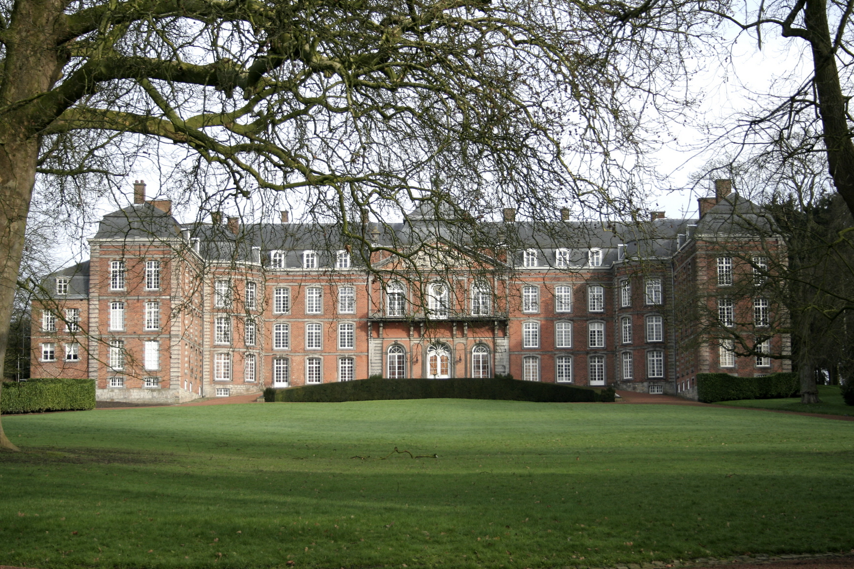 Le Roeulx (Belgium), the castle of the Princes de Croÿ (XVIIIth century).